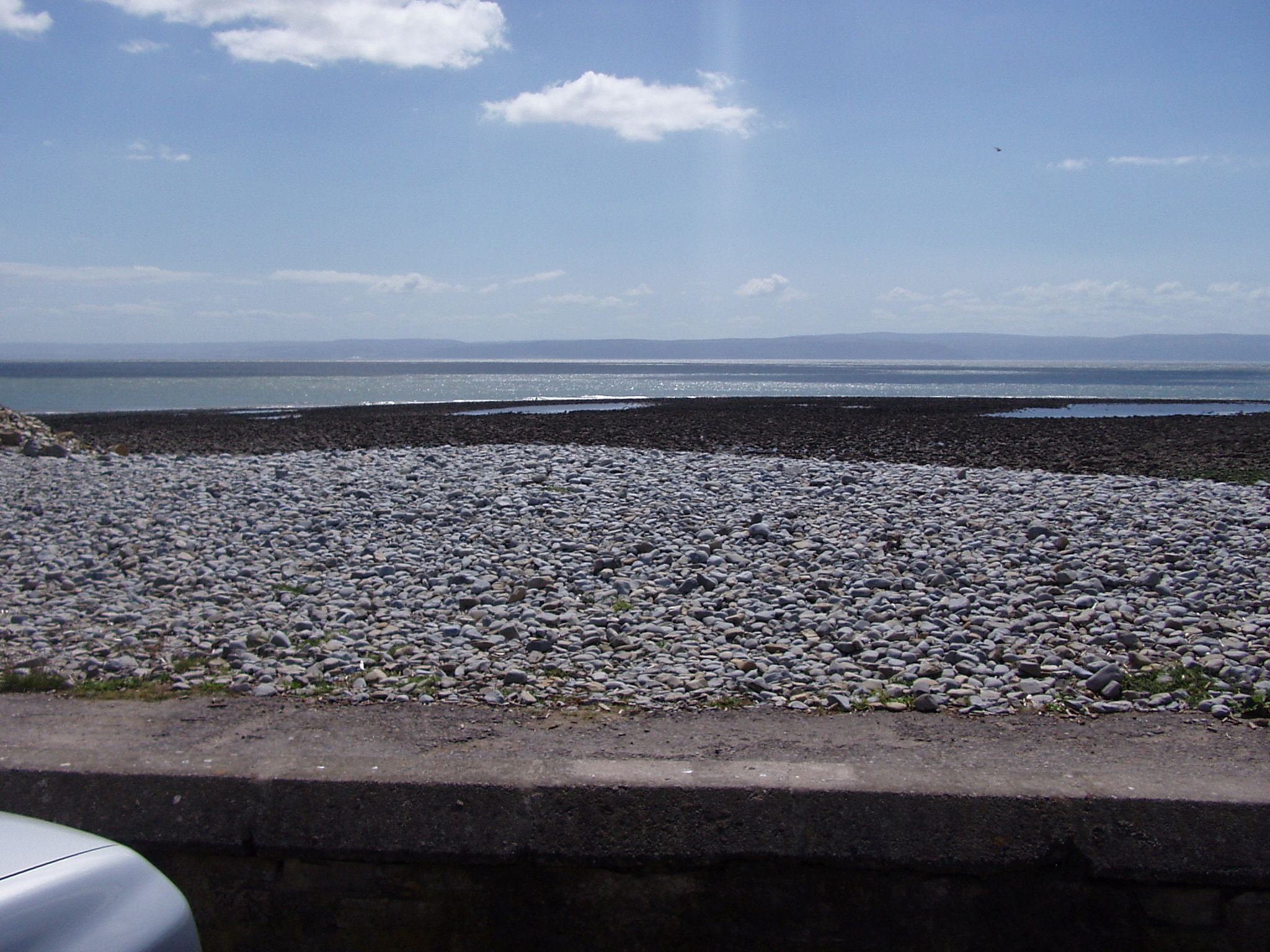 Llantwit Major beach, Vale of Glamorgan. south Wales, UK